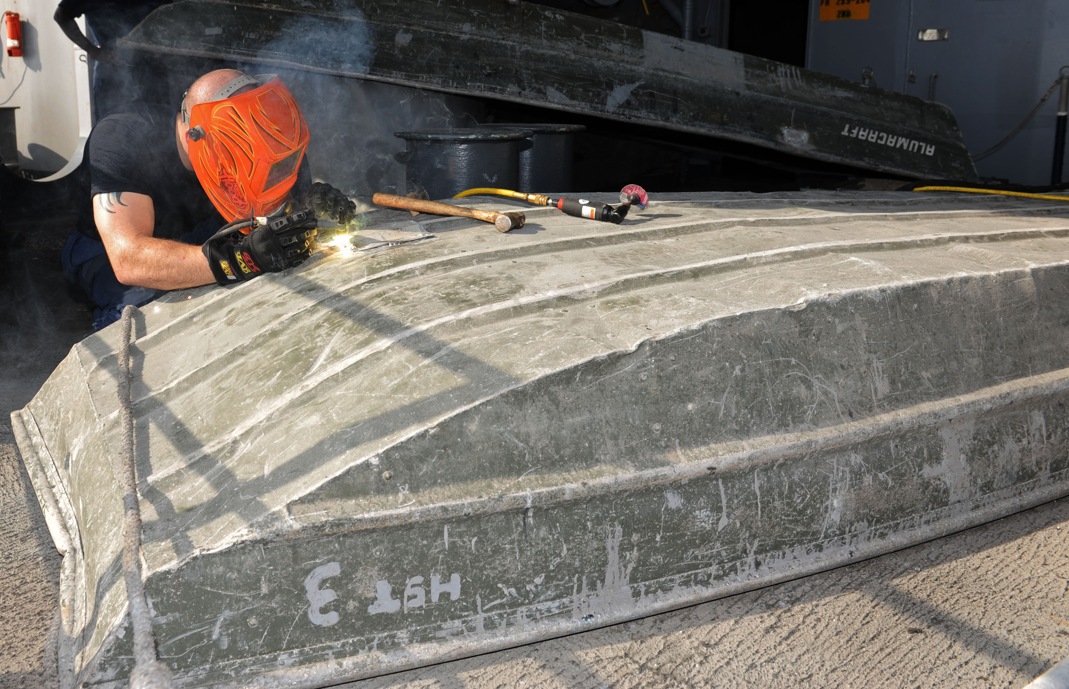 ARABIAN SEA (Oct. 18, 2010) Hull Maintenance Technician 3rd Class Christopher Pizzino makes a welding repair to an aluminum boat on the fantail aboard the aircraft carrier USS Harry S. Truman (CVN 75). The Harry S. Truman Carrier Strike Group is deployed supporting maritime security operations and theater security cooperation efforts in the U.S. 5th Fleet area of responsibility. (U.S. Navy photo by Mass Communication Specialist Seaman Apprentice Tyler Caswell/Released)